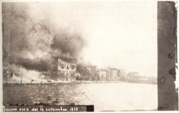 Smyrna fire. Buildings on fire at the quay. 14.Sep.1922. 09:00 AM.